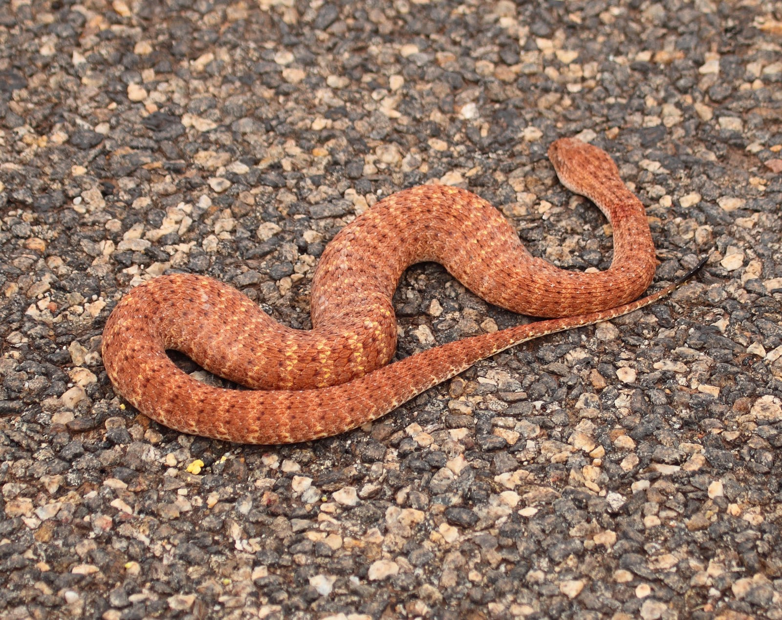 Desert death adder (Acanthophis pyrrhus), Glen Helen Resort, West MacDonnell Ranges, Northern Territory, Australia